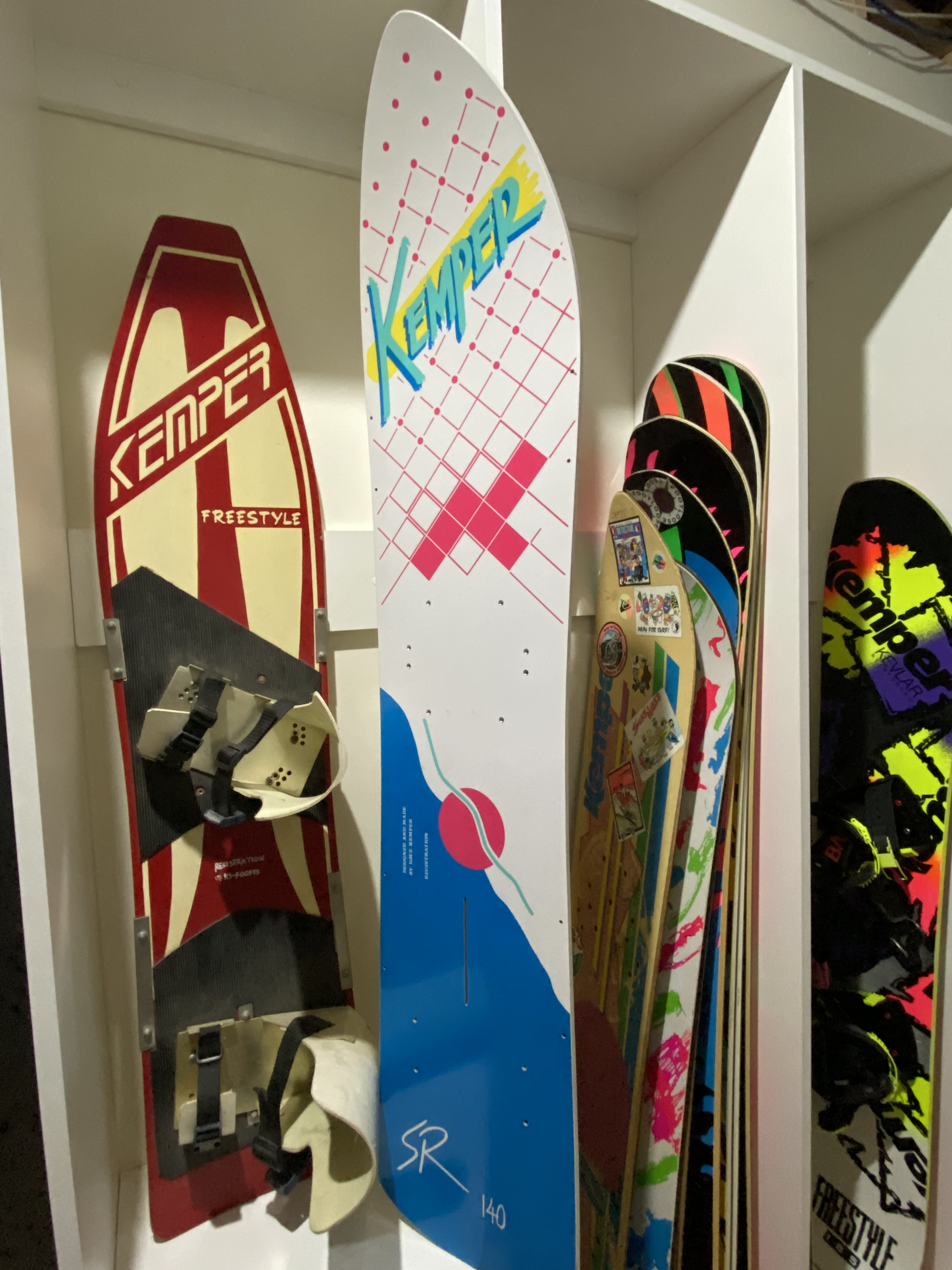 Kemper Snowboards first boards produced from the mid 1980's.